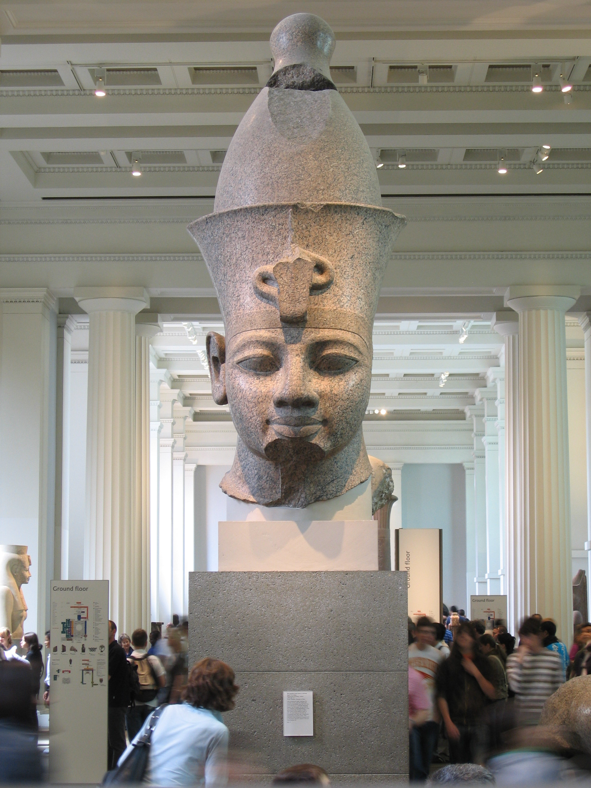 Colossal granite head of Amenhotep III, from the temple of Mut, Karnak, Egypt. Originally 18th Dynasty, around 1350 BC. Currently in the British Museum (Room 4).